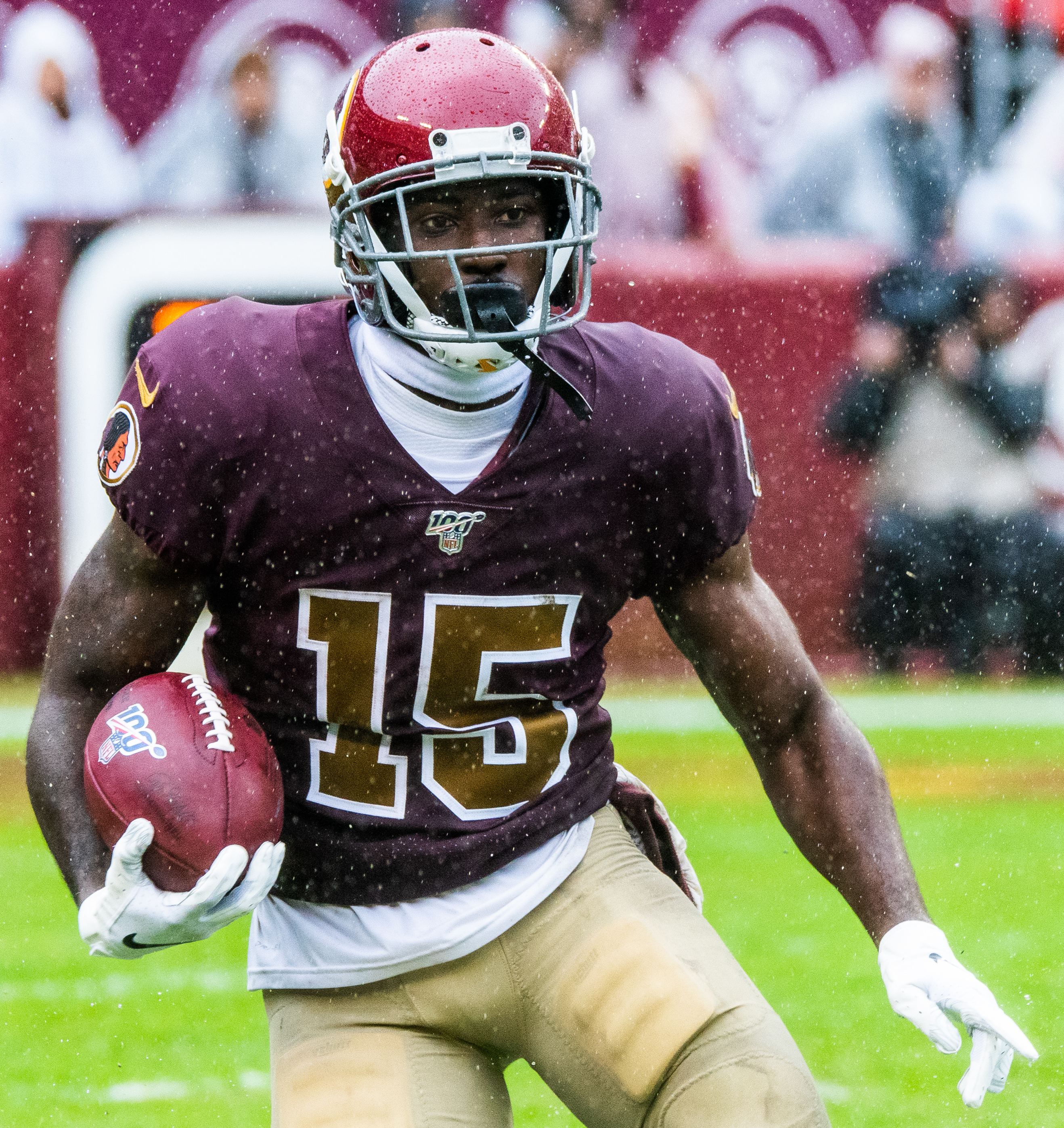 In 2019